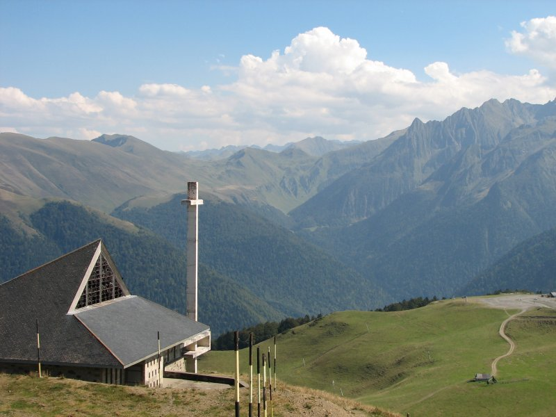 The chapel at Superbagneres.